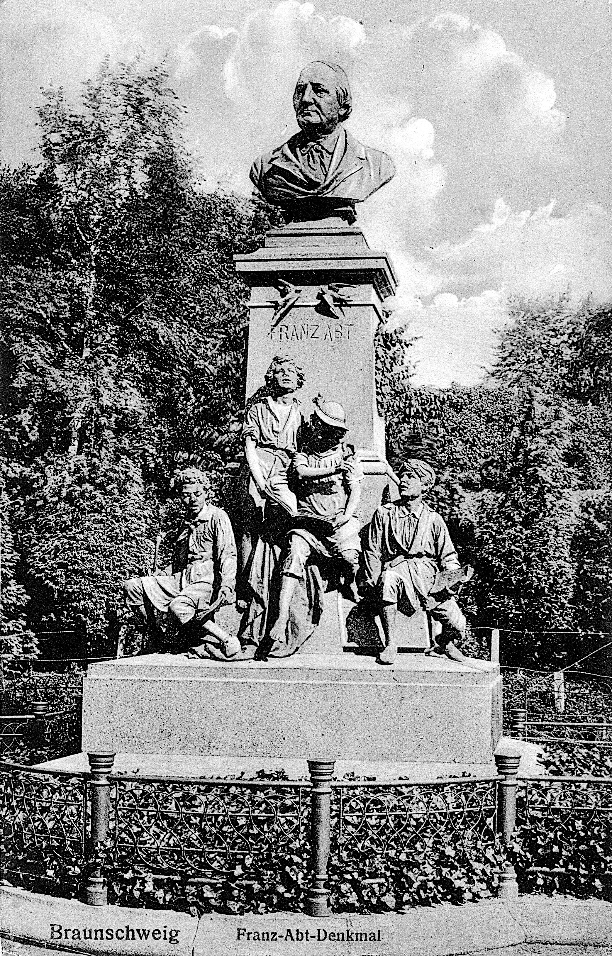 Photography, reproduced as postcard No. 239, published by G.S.K.B. (Georg Selle Kunstanstalt, Berlin); electronically enhanced with Gimp 2.10 by Werner Wiese. Monument of composer and kapellmeister Franz Abt in Brunswick, dedicated July 13, 1891; melted down for its material to support the war machine during WW II. Design by Carl Friedrich Echtermeier (* 1845; † 1910), cast in bronze by Hermann Heinrich Howaldt (*1841; †1891). The swallows on the monument’s base are reminiscent of a well-known song composed by Franz Abt: When the Swallows Homeward Fly.